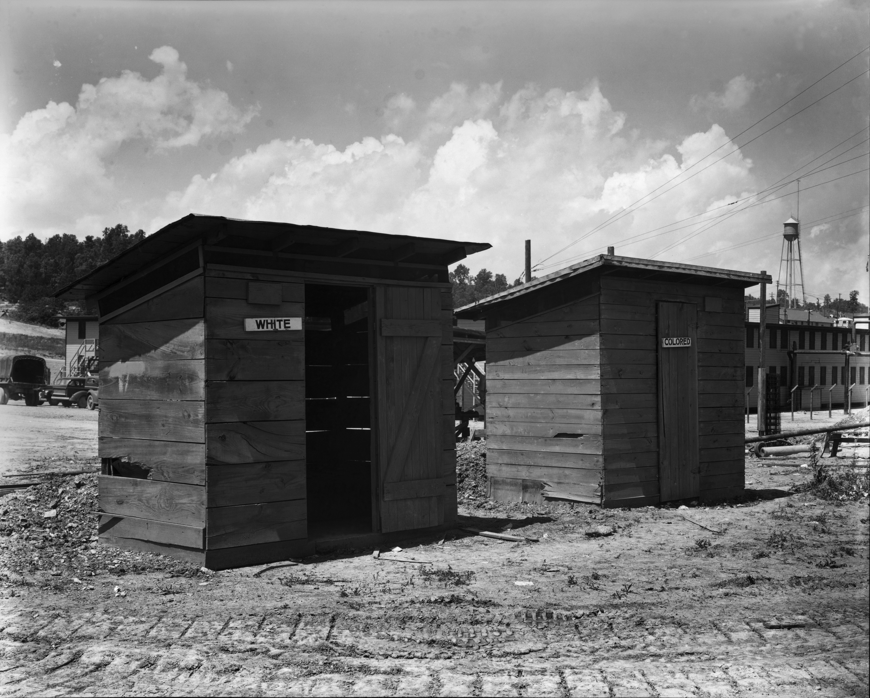 X10-14 file # 43 1943 White and Colored privies X-10 plant